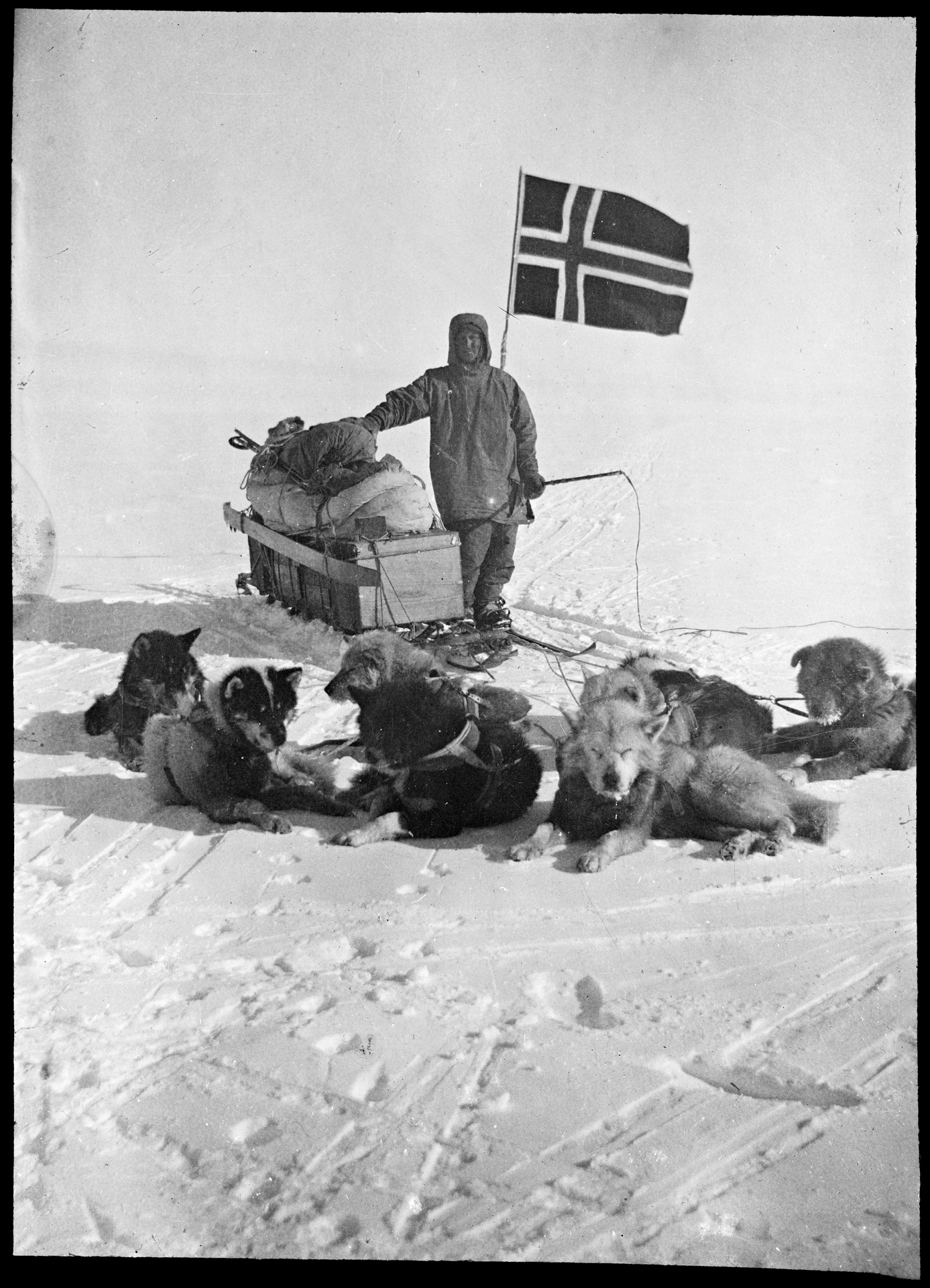 Tittel / Title: Oscar Wisting med hundespannet sitt på Sydpolen Motiv / Motif: Positiv glassplate. Dato / Date: 14. desember 1911 Fotograf / Photographer: ukjent / unknown Sted / Place: Antarktis, Sydpolen Eier / Owner Institution: Nasjonalbiblioteket / National Library of Norway Lenke / Link: Bildesignatur / Image Number: bldsa_NPRA0525